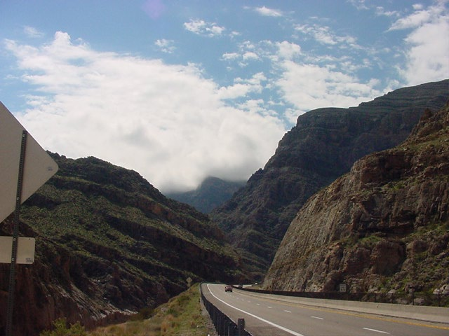 Storm rolling up the Virgin River Gorge - I-15, MP 17, looking SW - picture taken 11 Mar 2001 13:04 MST